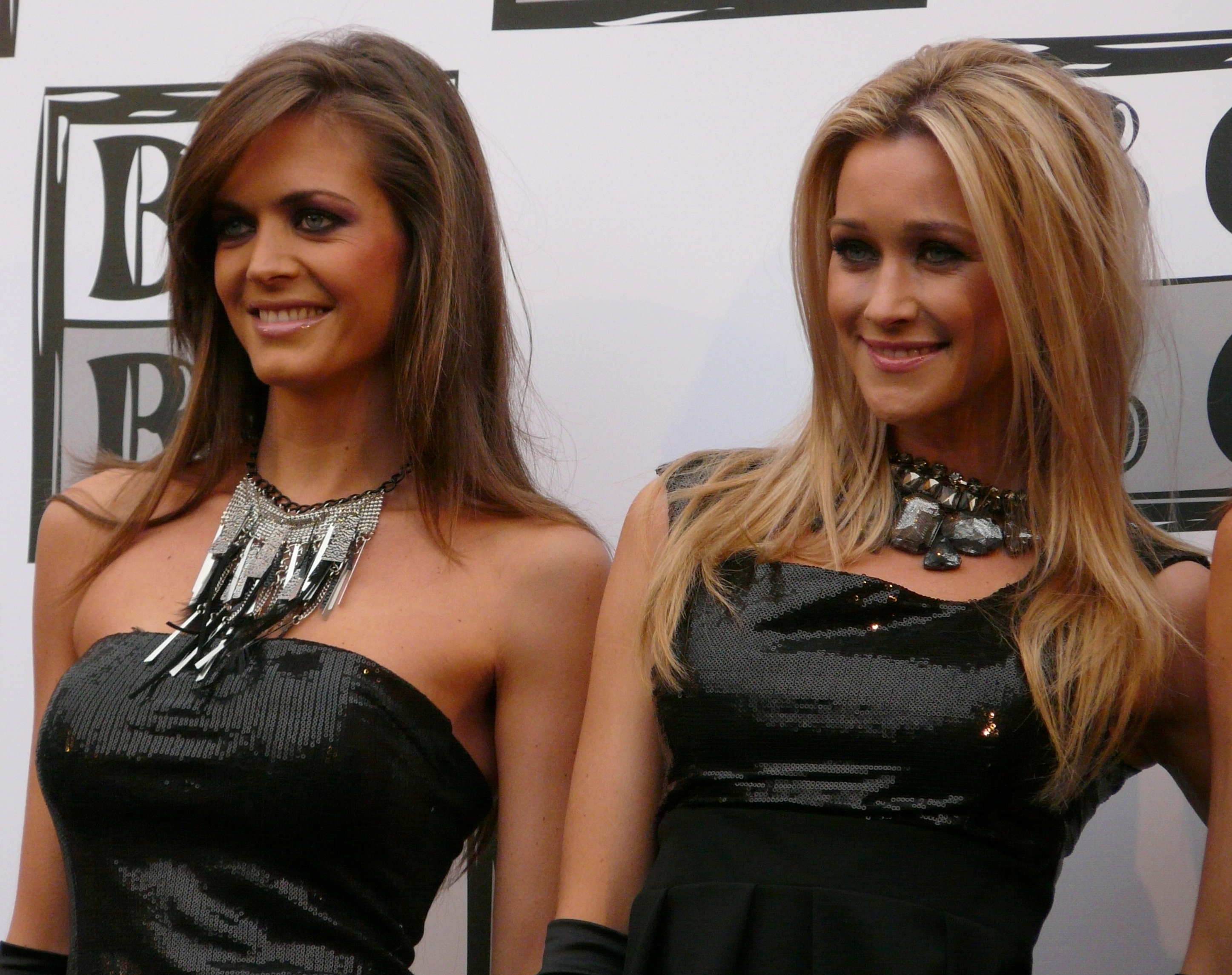 On the left : Astrid "totally pimped out, chromed out" Bryan ( a media phenomenon in Flanders in 2011 because of her hilarious Hollywood/Antwerp accent ) ; on the right : model Kim Engelbosch Tremelo